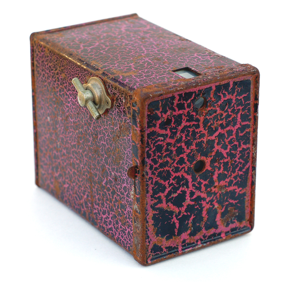 As almost nothing is known about this camera, I could think of no better way to describe it than to quote its description as written in McKeown's Price Guide to Antique and Classic Cameras (12th Edition, page 149): "This beautiful little anonymous box camera came in various colors of two-tone cracked finish enamel. We have seen it in blue, yellow, and brown versions, but have never found the name of the maker or model. We would be pleased to hear from any reader with documentation on this distinctive but elusive box camera." Now they've seen a hot pink version! :o) It should be noted that James McKeown graciously gave me his permission to use the above quote. Thank you, Mr. McKeown!